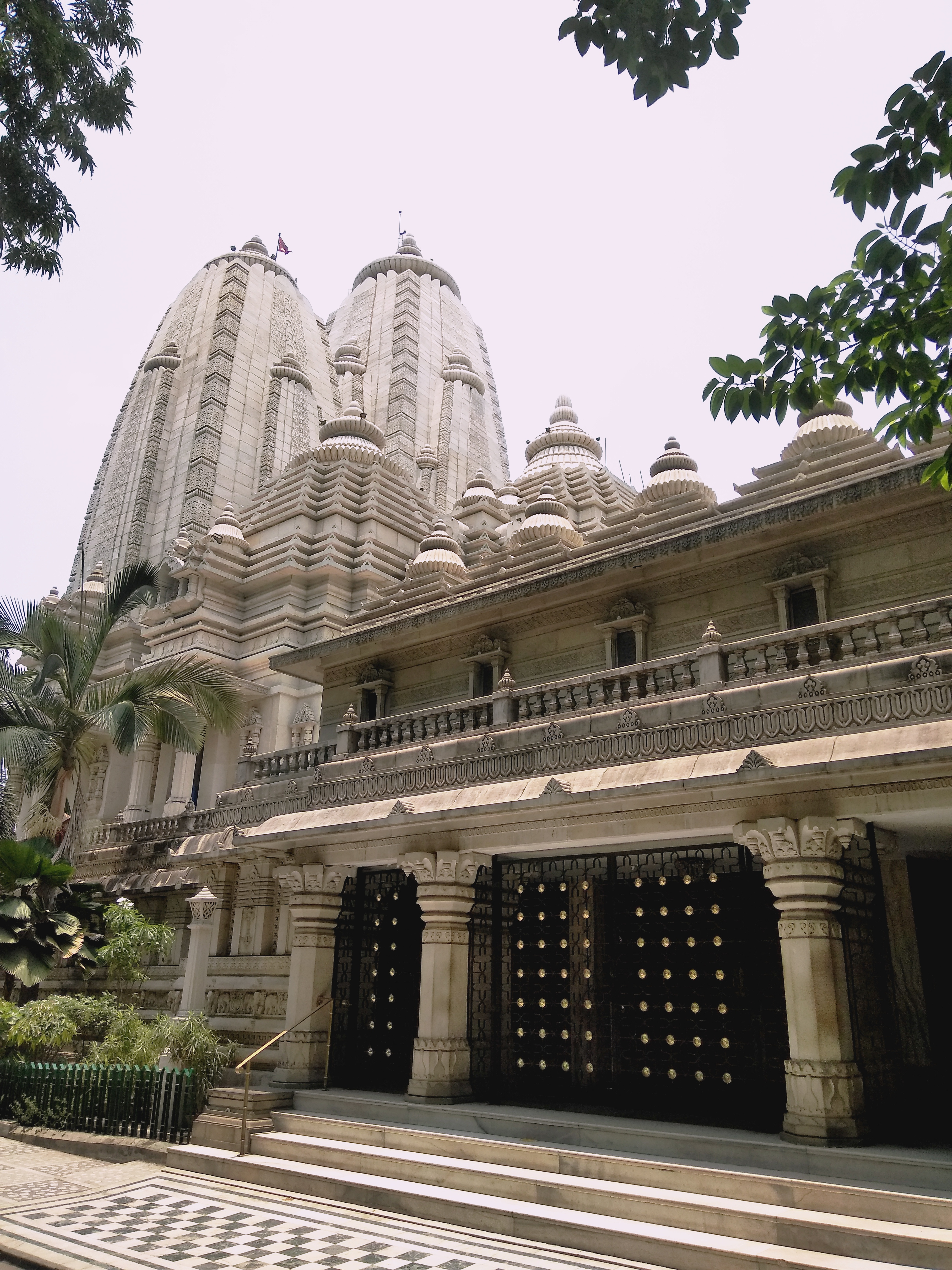 Birla Mandir situated at old Bulygaunge Road, Kolkata, West Bengal, India It's a magnificent temple of Hindus One of the most attractive place of Kolkata . Thousands of tourist visits daily and this was built by Industrialist Birla group